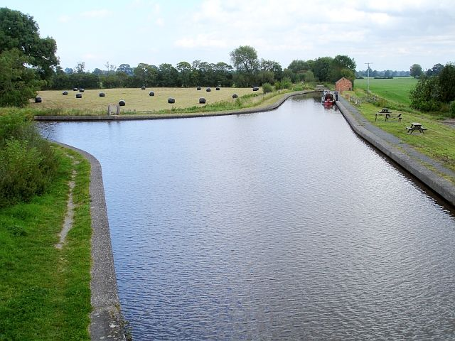 Canal stub near Lockgate Bridge. At a sharp bend on the Montgomery Canal, just below Frankton Locks (out of shot to the left), is this short stub of canal which peters out after about 200 metres. I'm told this was the branch to Westonwharf (SJ4225).